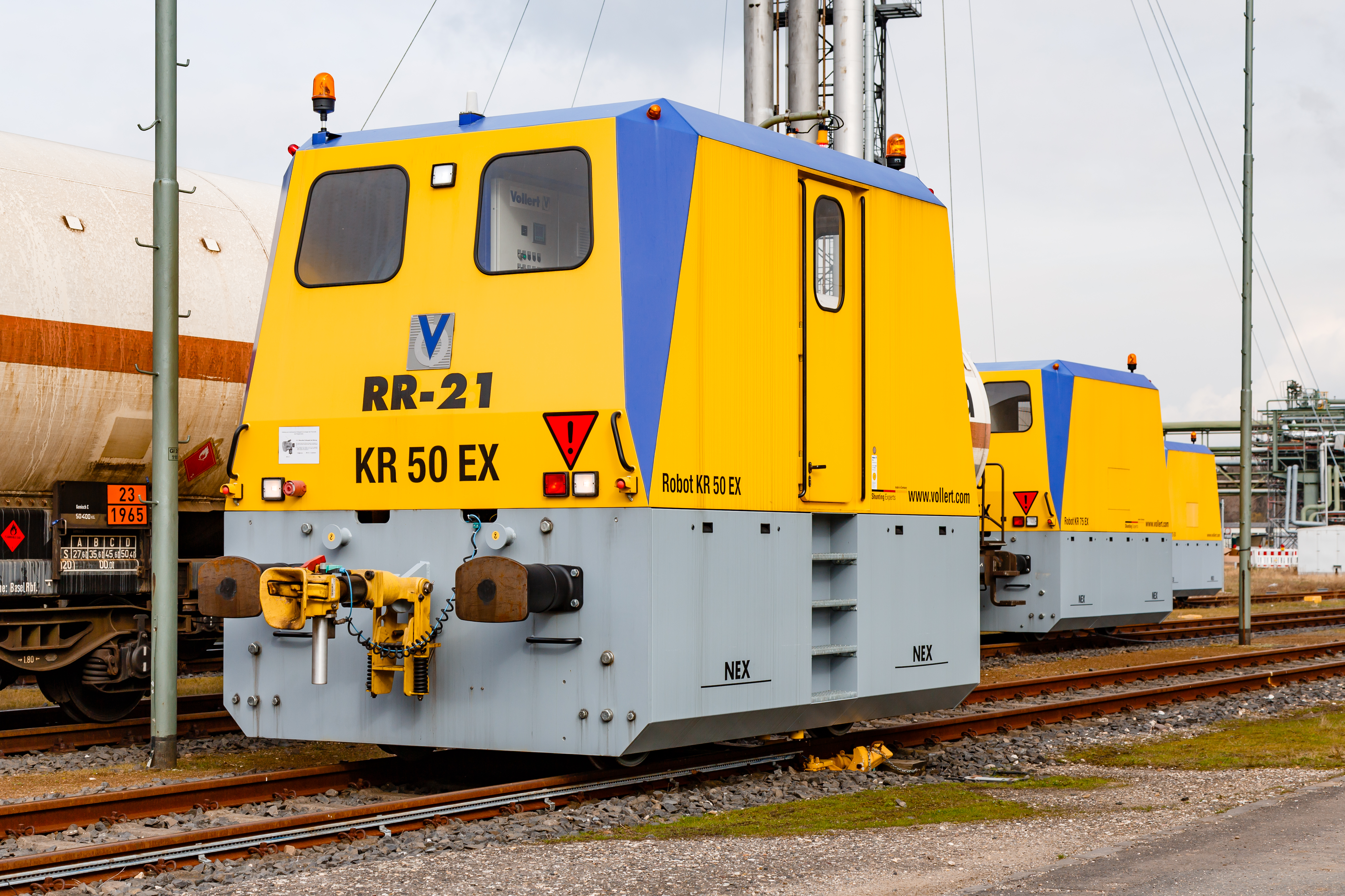 Köln, Germany: VOLLERT Shunting Robot KR 50 EX for use in hazardous areas. The robot is remote-controlled.